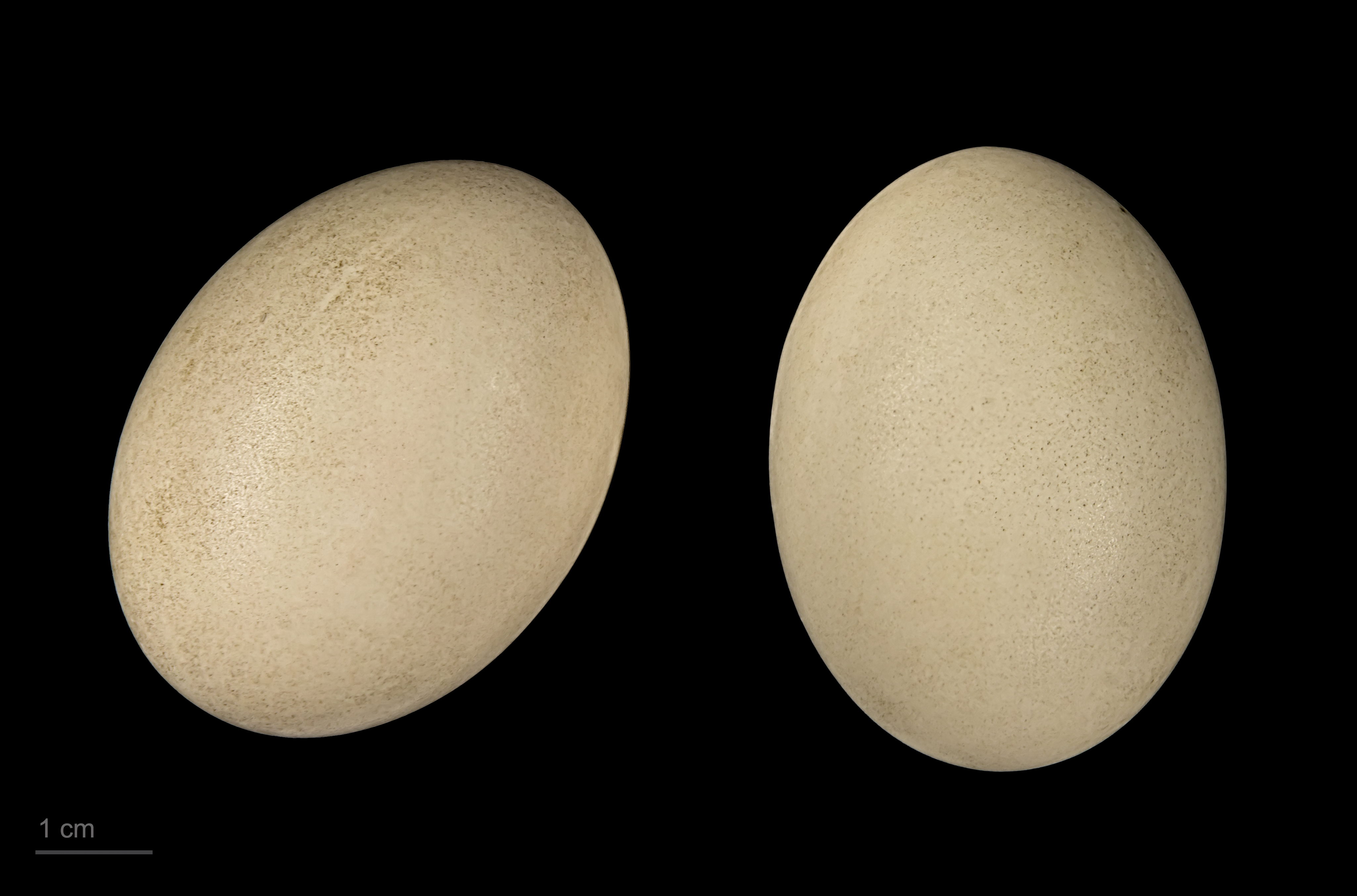 Eggs of ferruginous duck Two specimens of the same spawn ; collection of Jacques Perrin de Brichambaut.